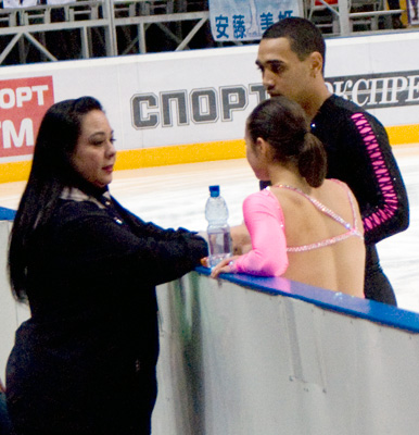 2010 Cup of Russia, short program.